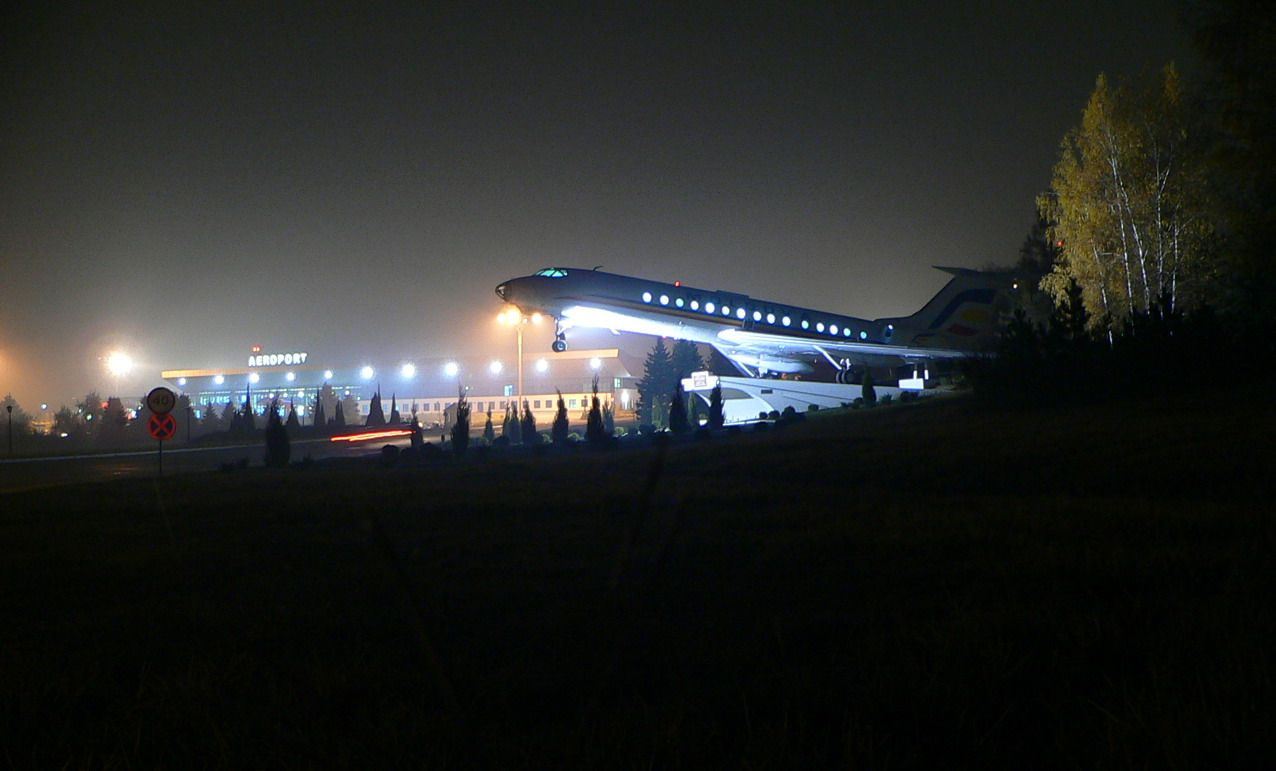 Chisinau Airport In Night